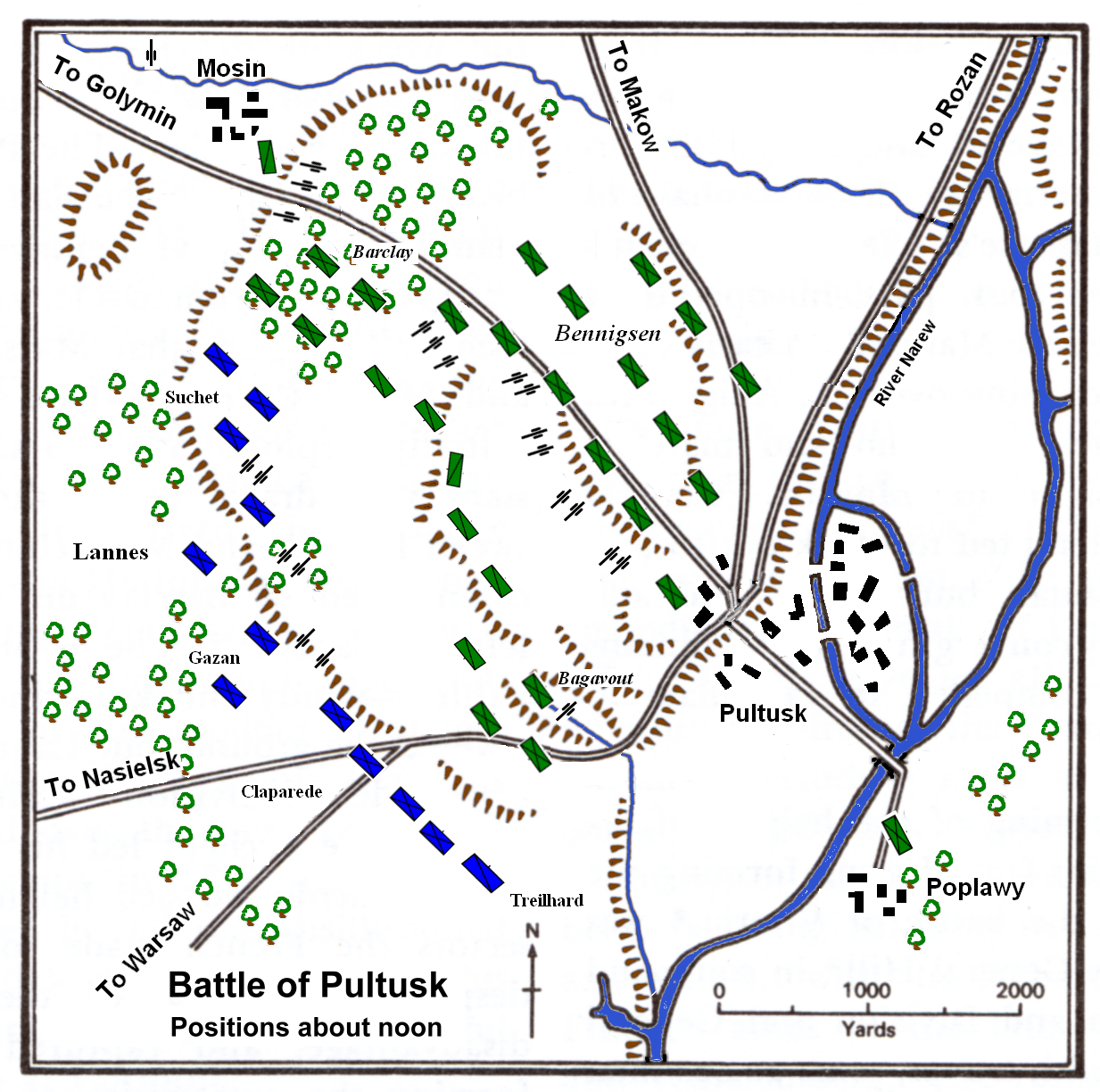 Drawn by Andrew Hobley based on maps in "Napoleon's Campaign in Poland" F L Petre, 2001, and David Chandler, "Dictionary of the Napoleonic Wars" 1993.